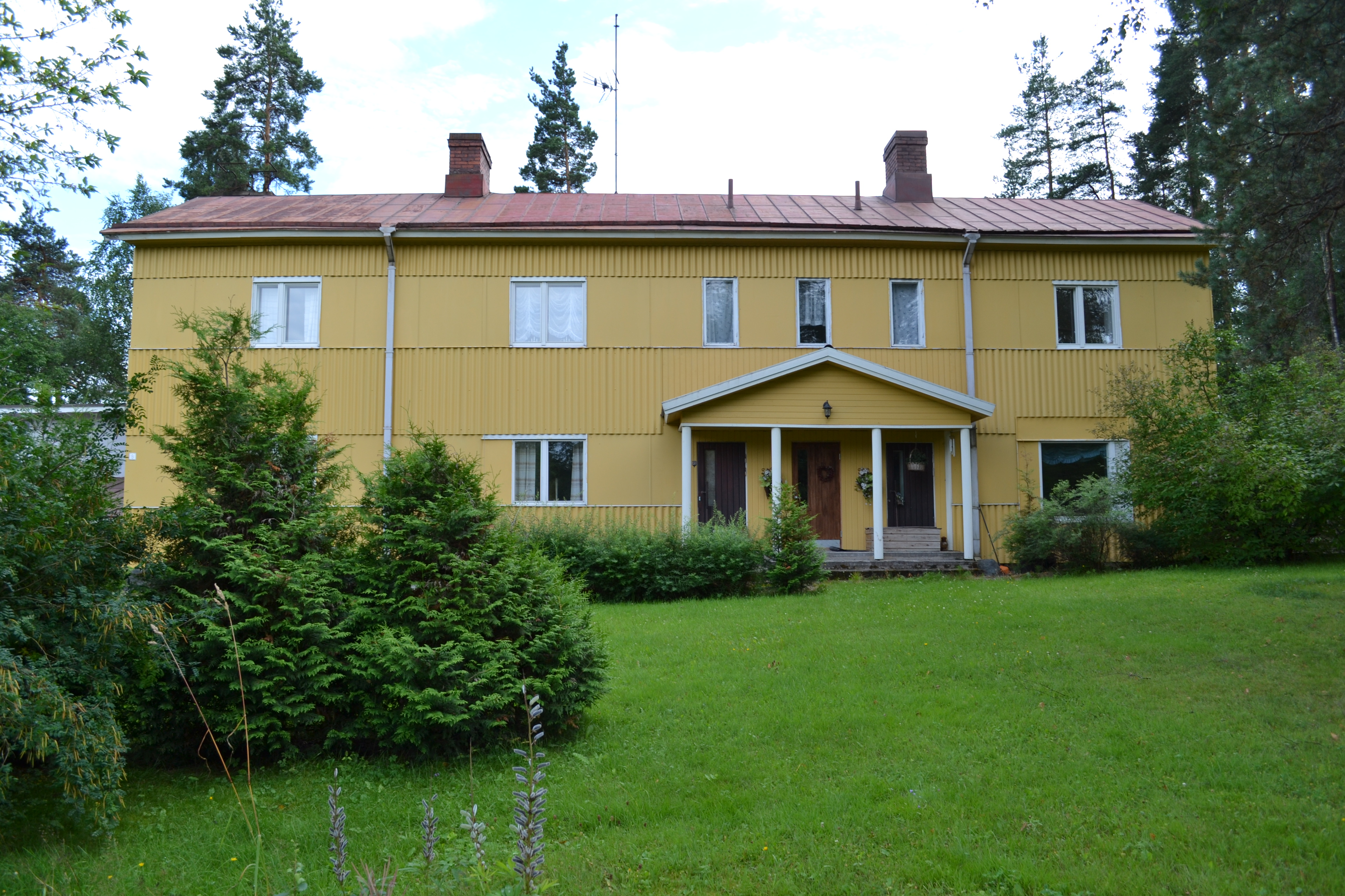 House in Haapamäki